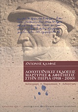 Λογοτεχνικές εκδόσεις, μαρτυρίες και αφηγήσεις στην Πιερία (1918-2010), Πολιτιστικός Οργανισμός Δήμου Κατερίνης, 2011